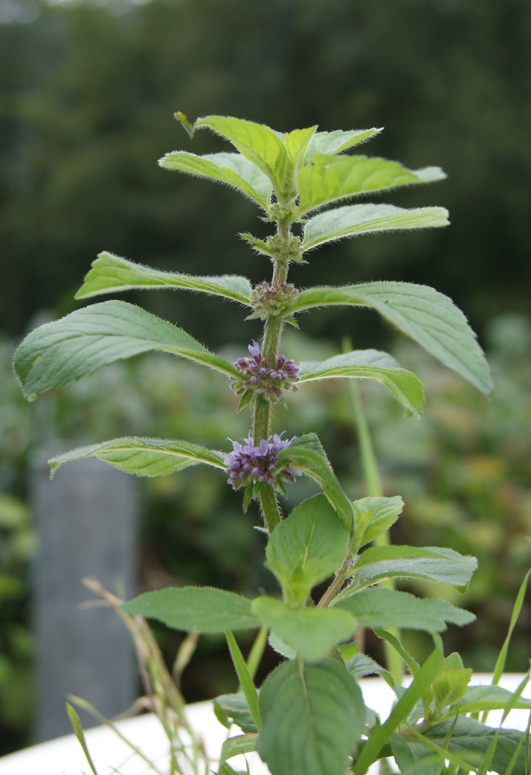 Mentha arvensis